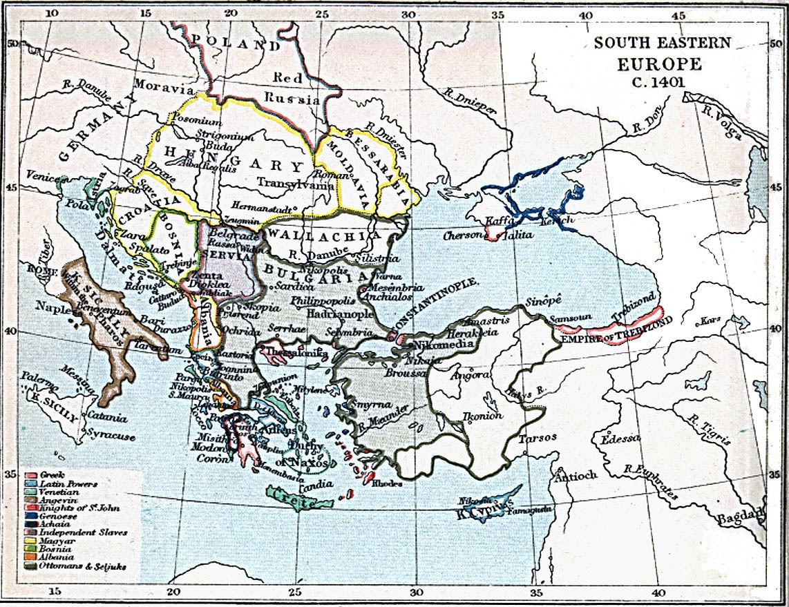 Map of south-eastern Europe in 1401 AD.